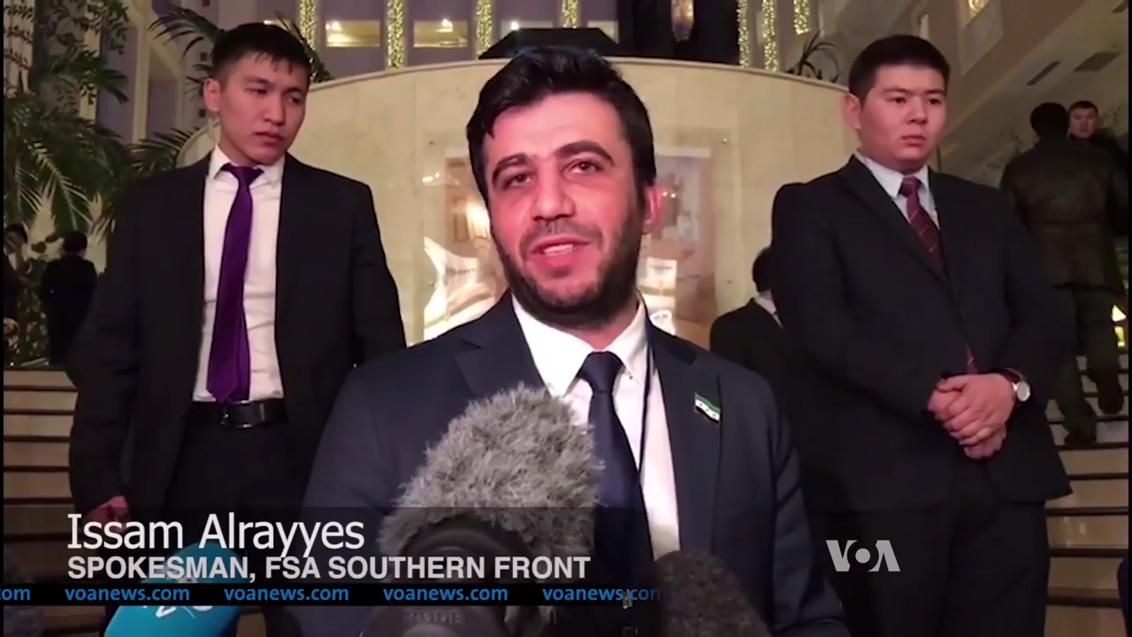 Issam Rayes, the spokesman of the Free Syrian Army's Southern Front during the talks in Astana, Kazakhstan.